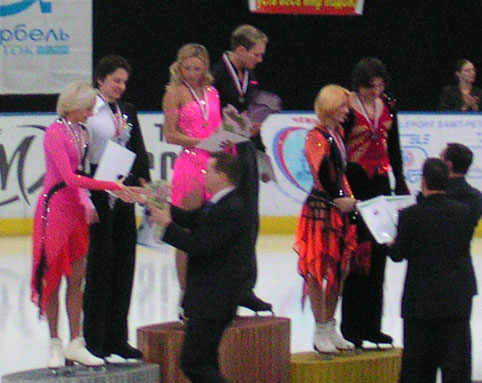 Dance Podium of Russian Nationals 2004